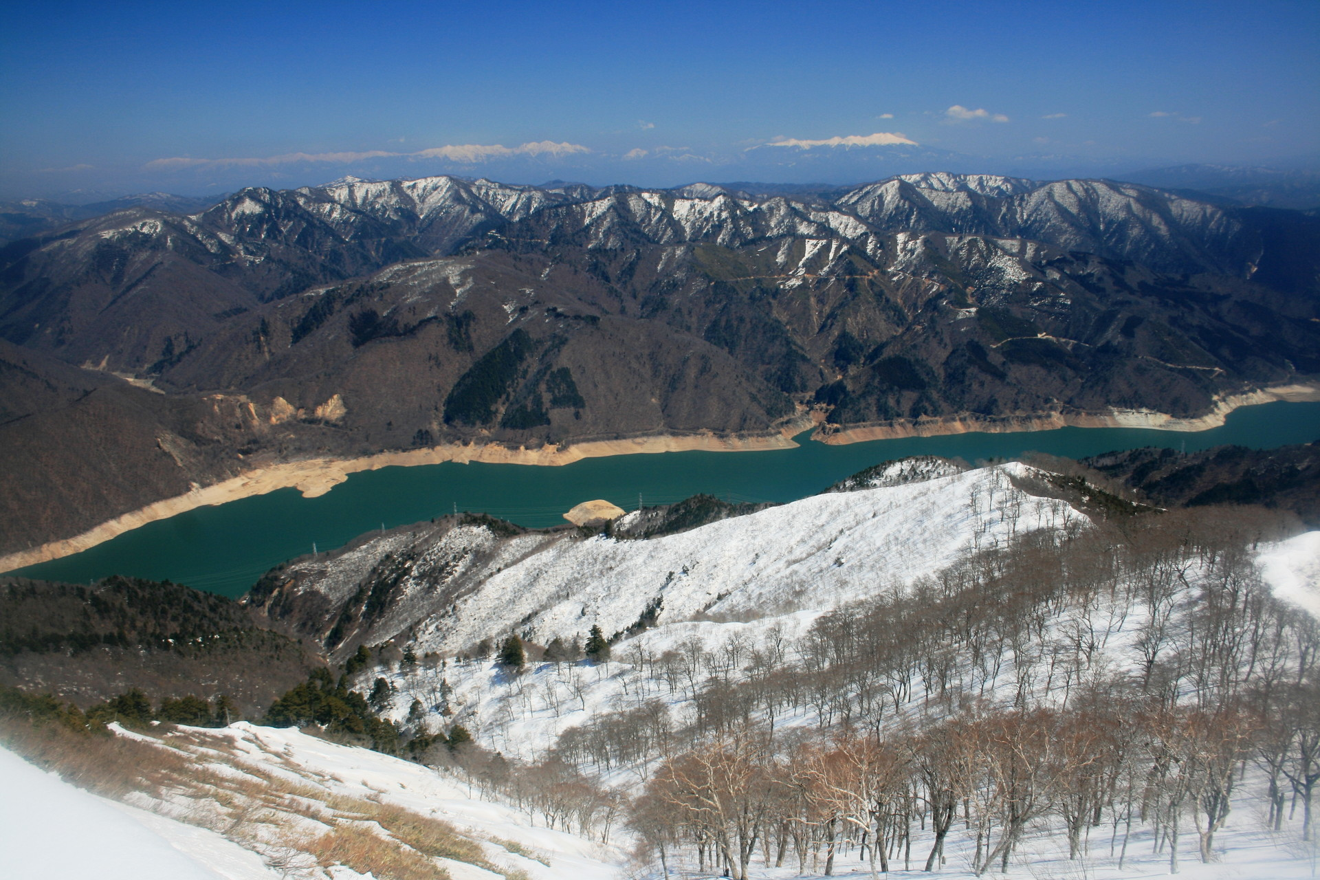 Miboro Dam from Mount Hideri and Hida Mountains